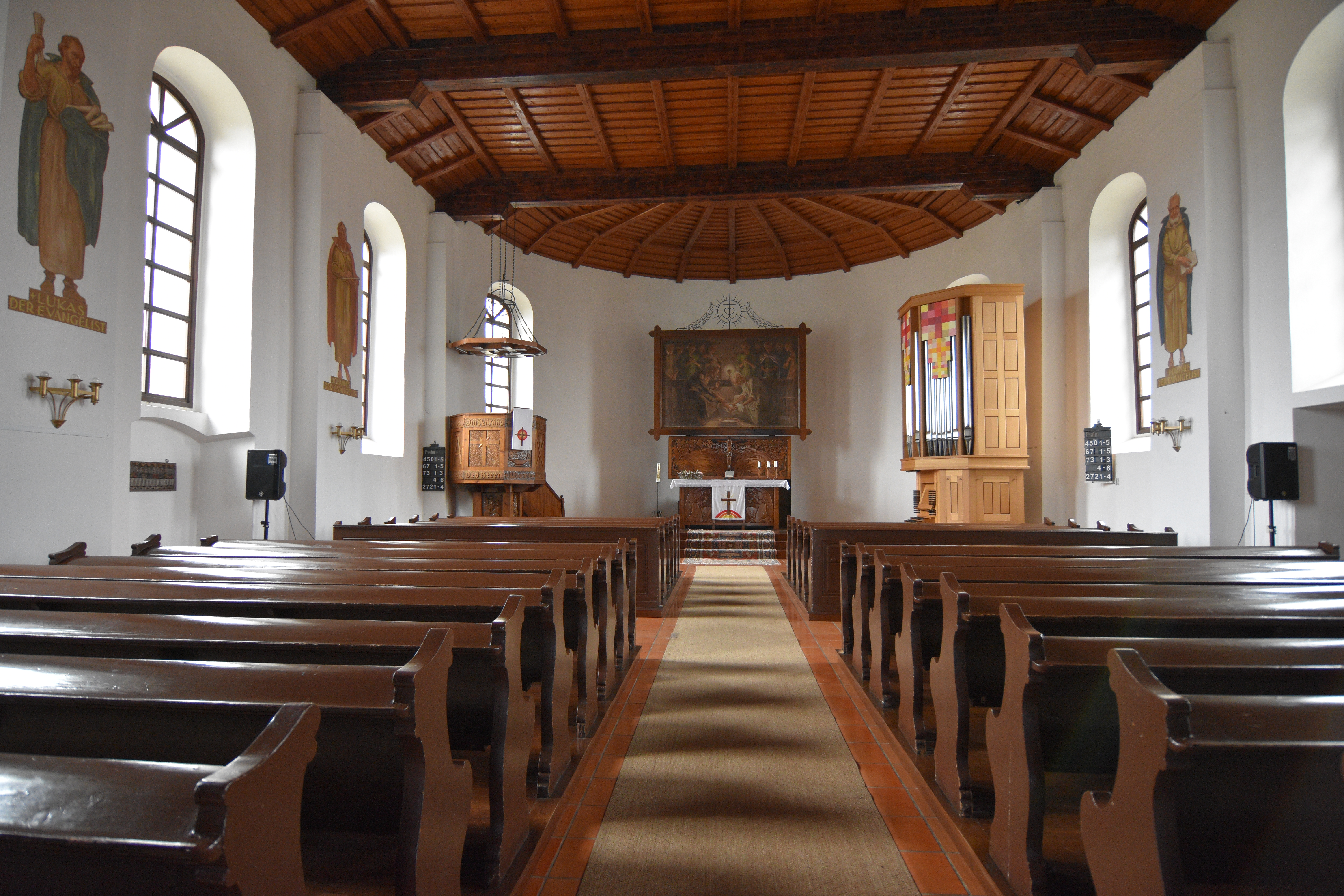 Martin-Luther-Kirche Eltendorf - Interior